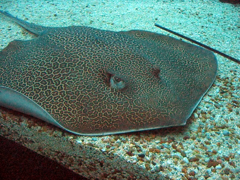 Honeycomb whipray (Himantura undulata) at the Lisbon Aquarium.